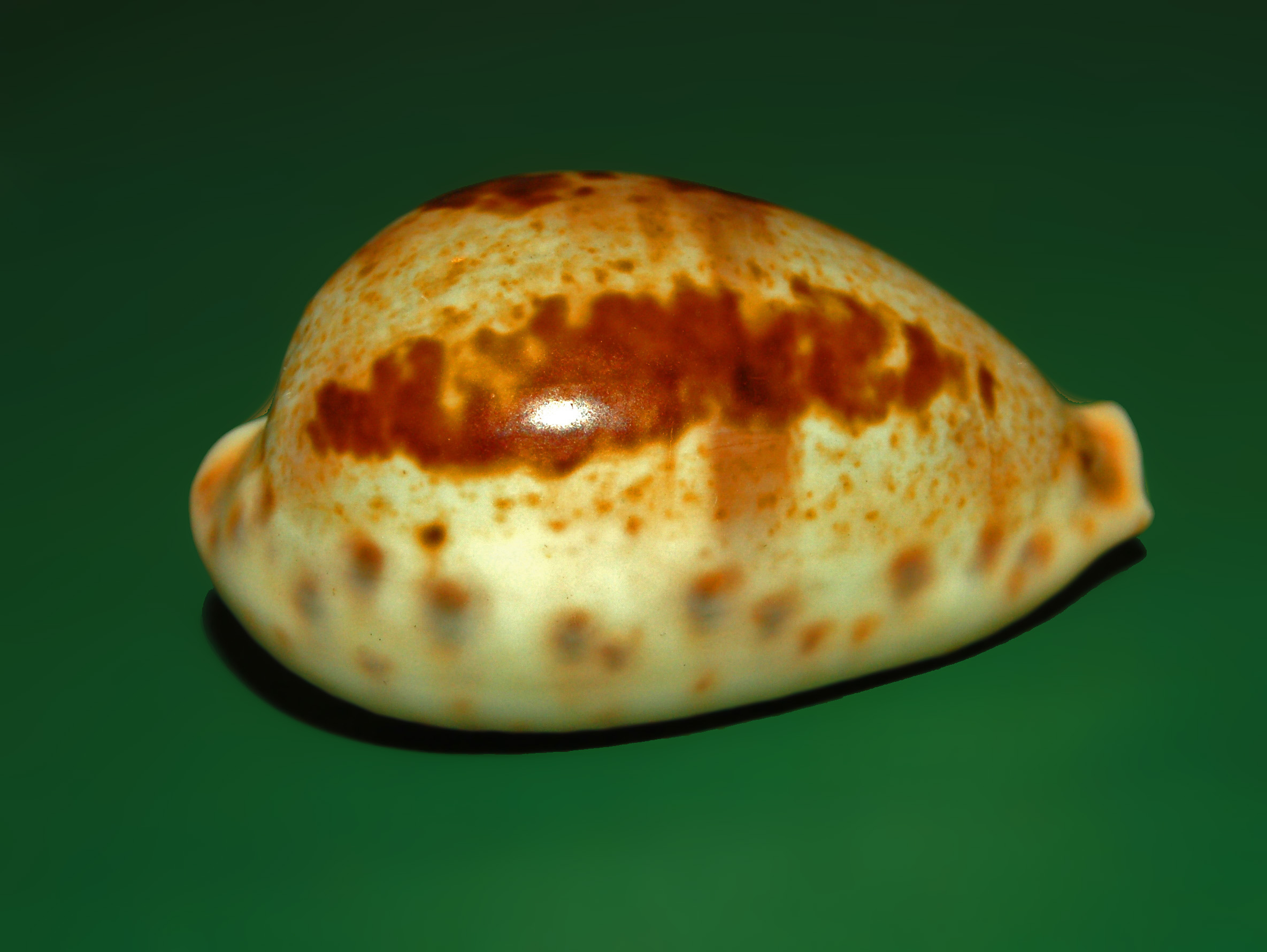 Contradusta pulchella